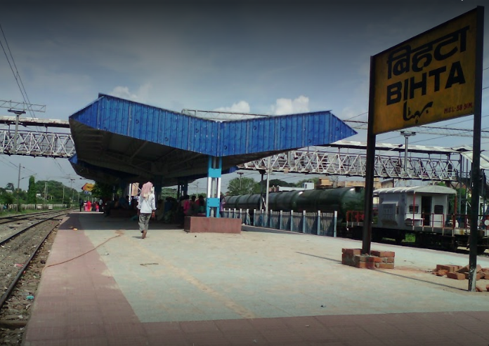 Bihtastation